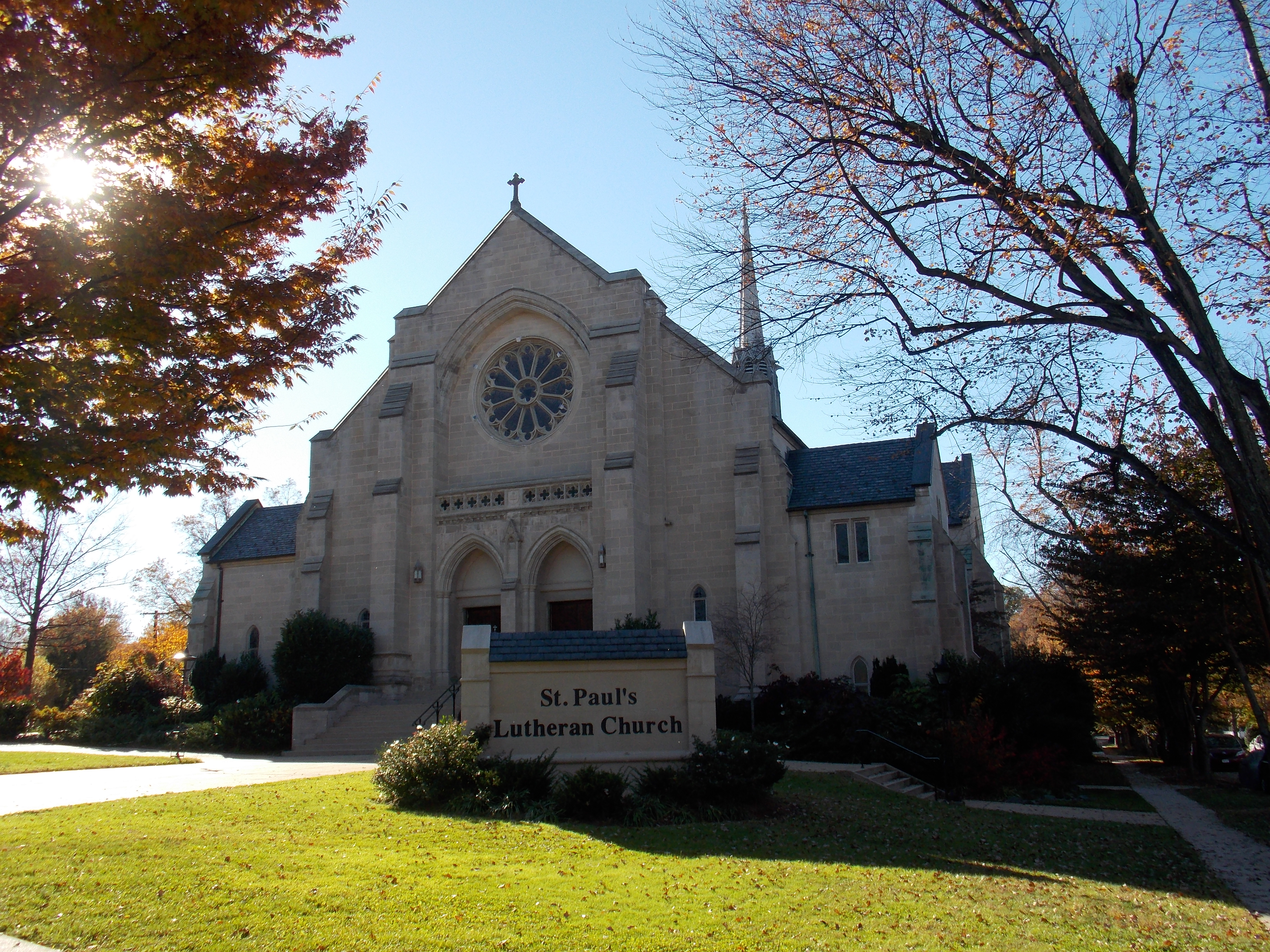 St. Paul's Lutheran Church (ELCA) on Connecticut Avenue, NW, in Washington, D.C.